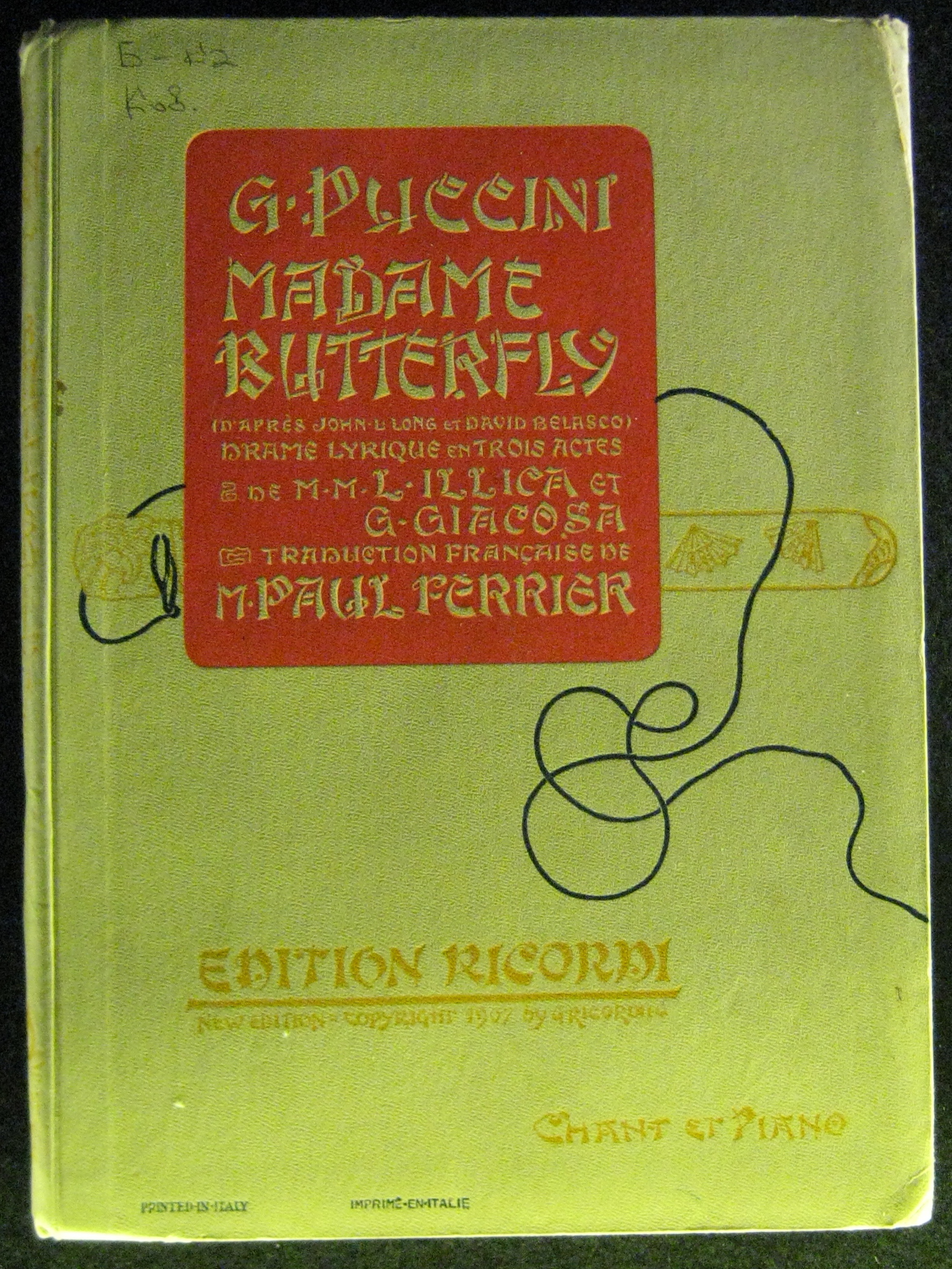 Vocal score. Edition Ricordi 1897. From library of conductor A. Kovalev. Glinka museum.